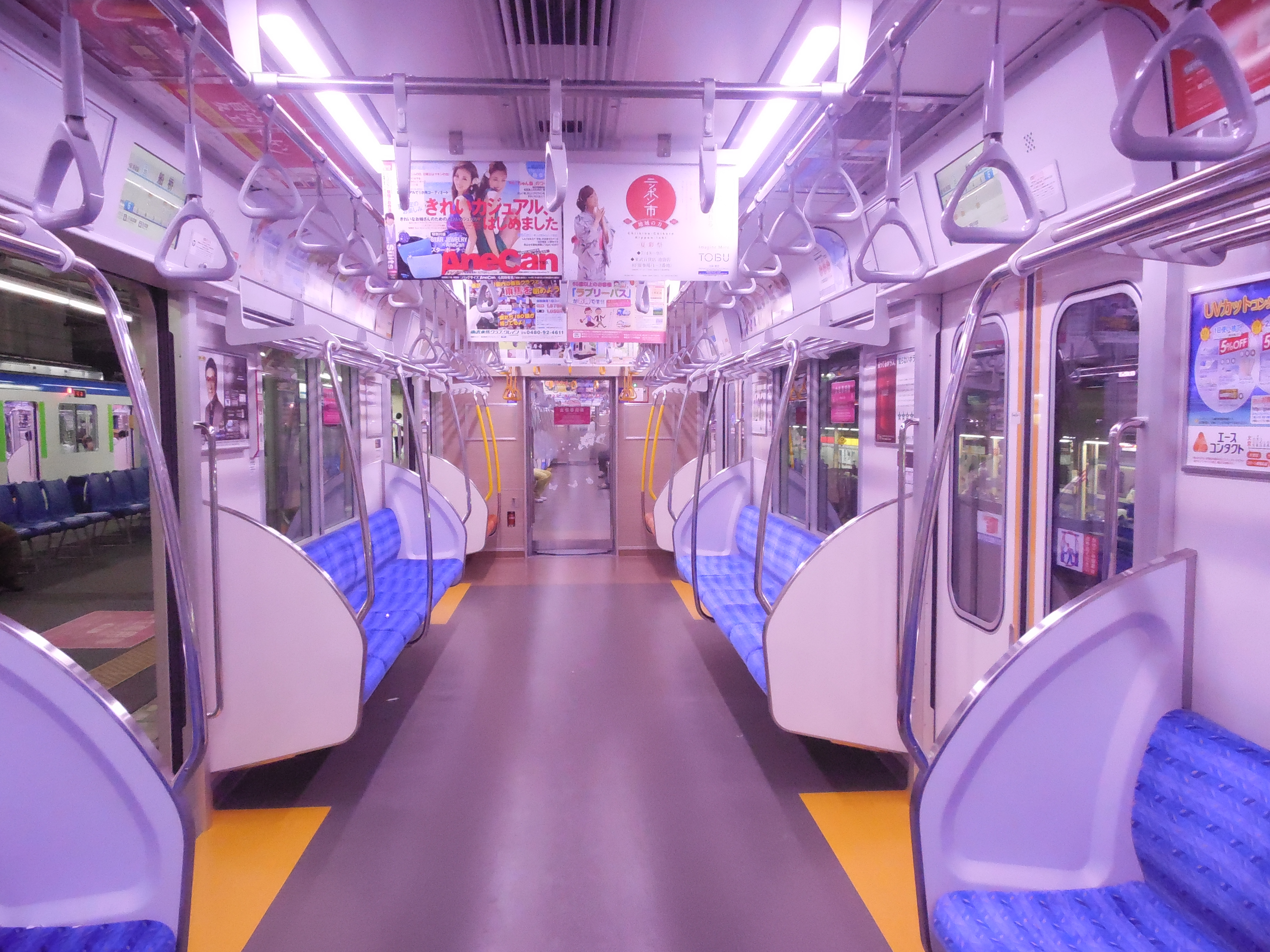 Interior of a Tobu 60000 series EMU